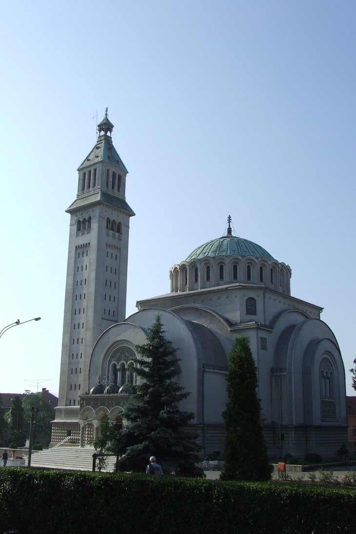 Image from Orăştie, Romania - Orthodox Cathedral